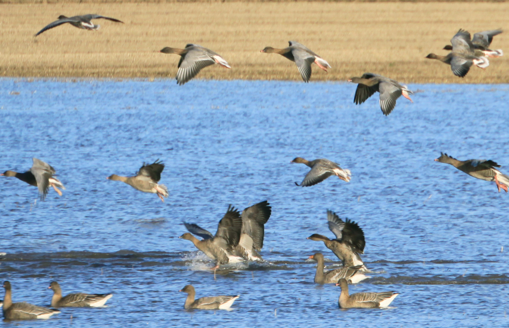 Anser brachyrhynchus flock (and one Anser anser), Fife, Scotland.